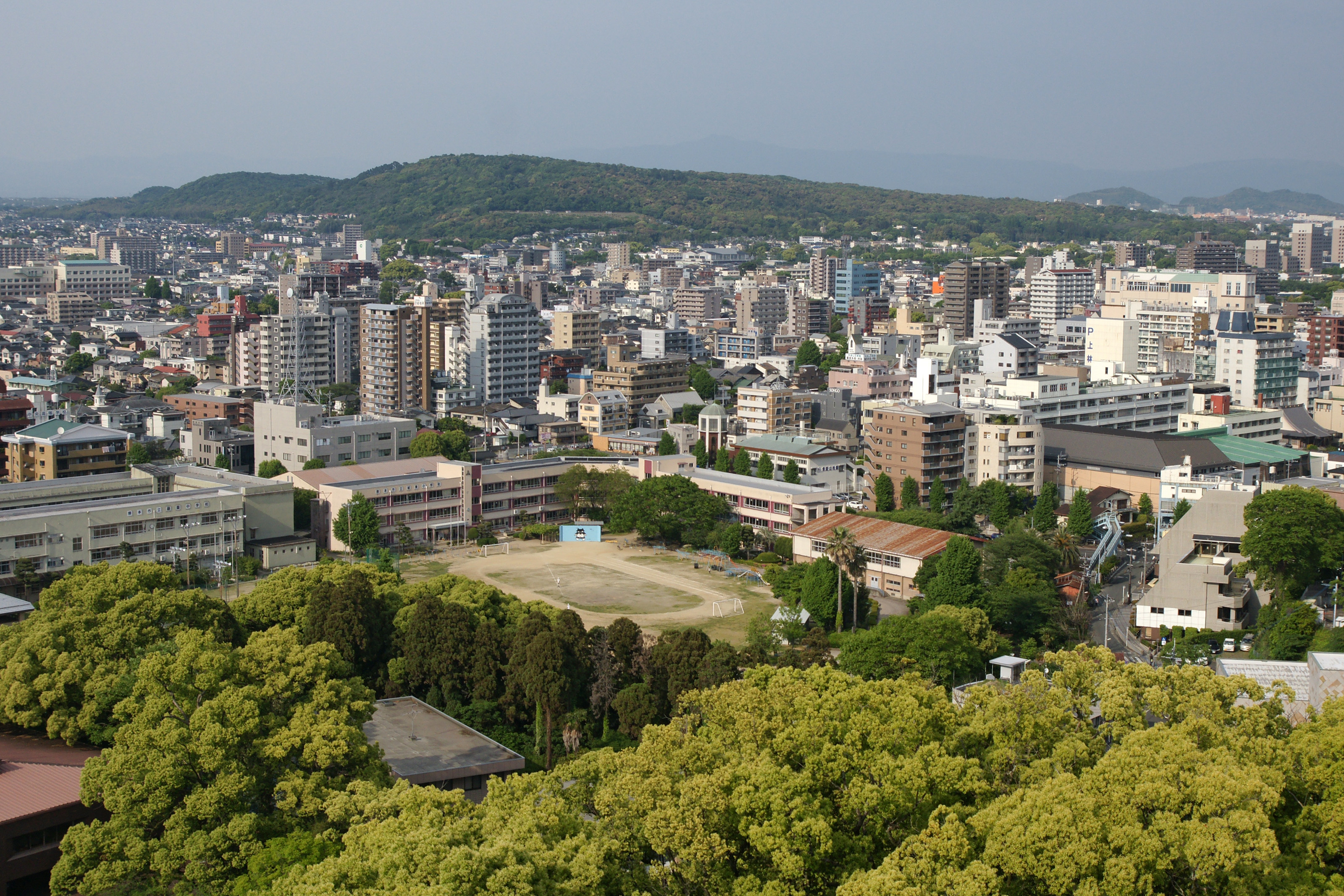 Kumamoto Castle, Kumamoto, Kumamoto prefecture, Japan